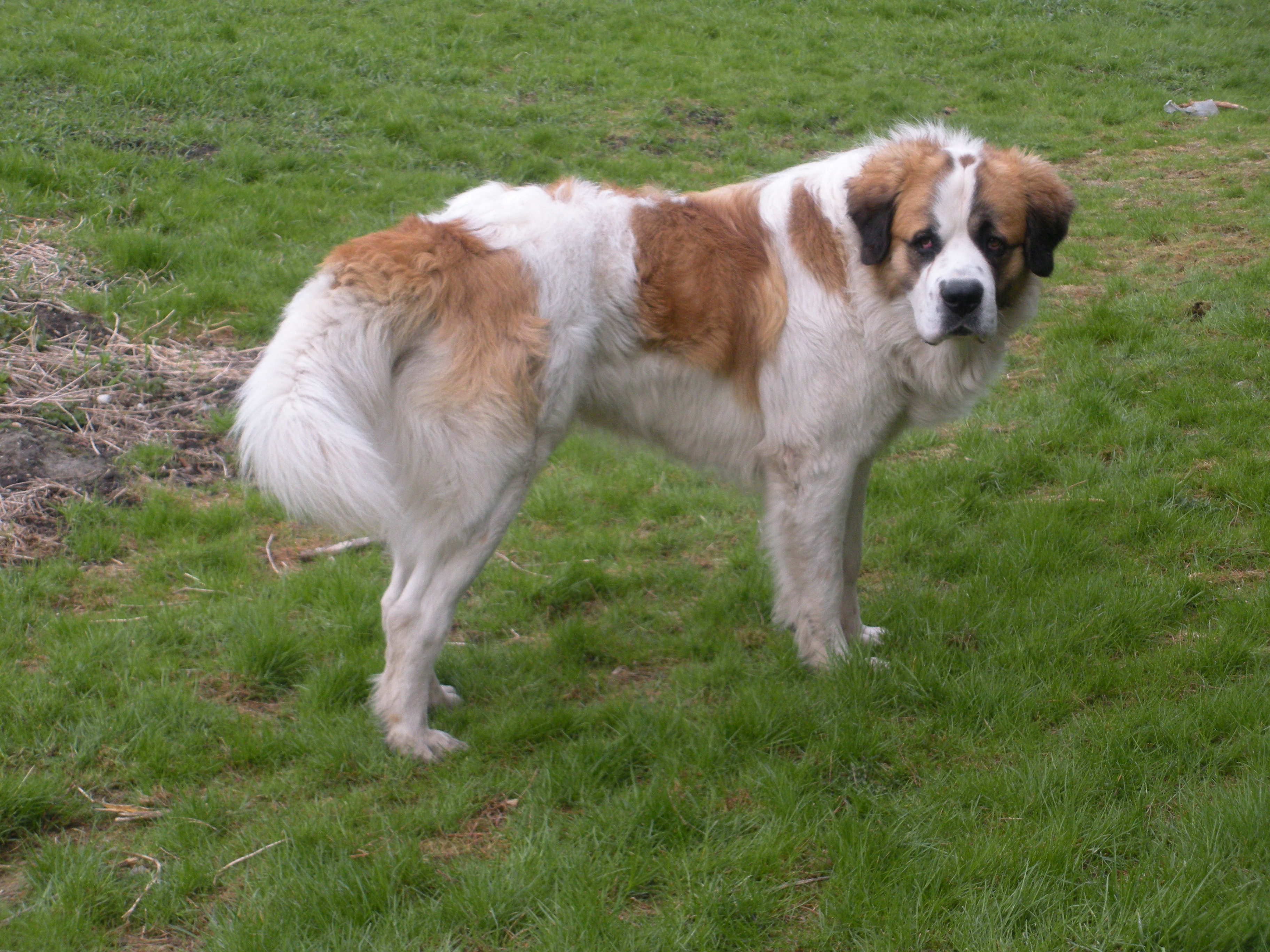 Moscow watchdog- 2 years old